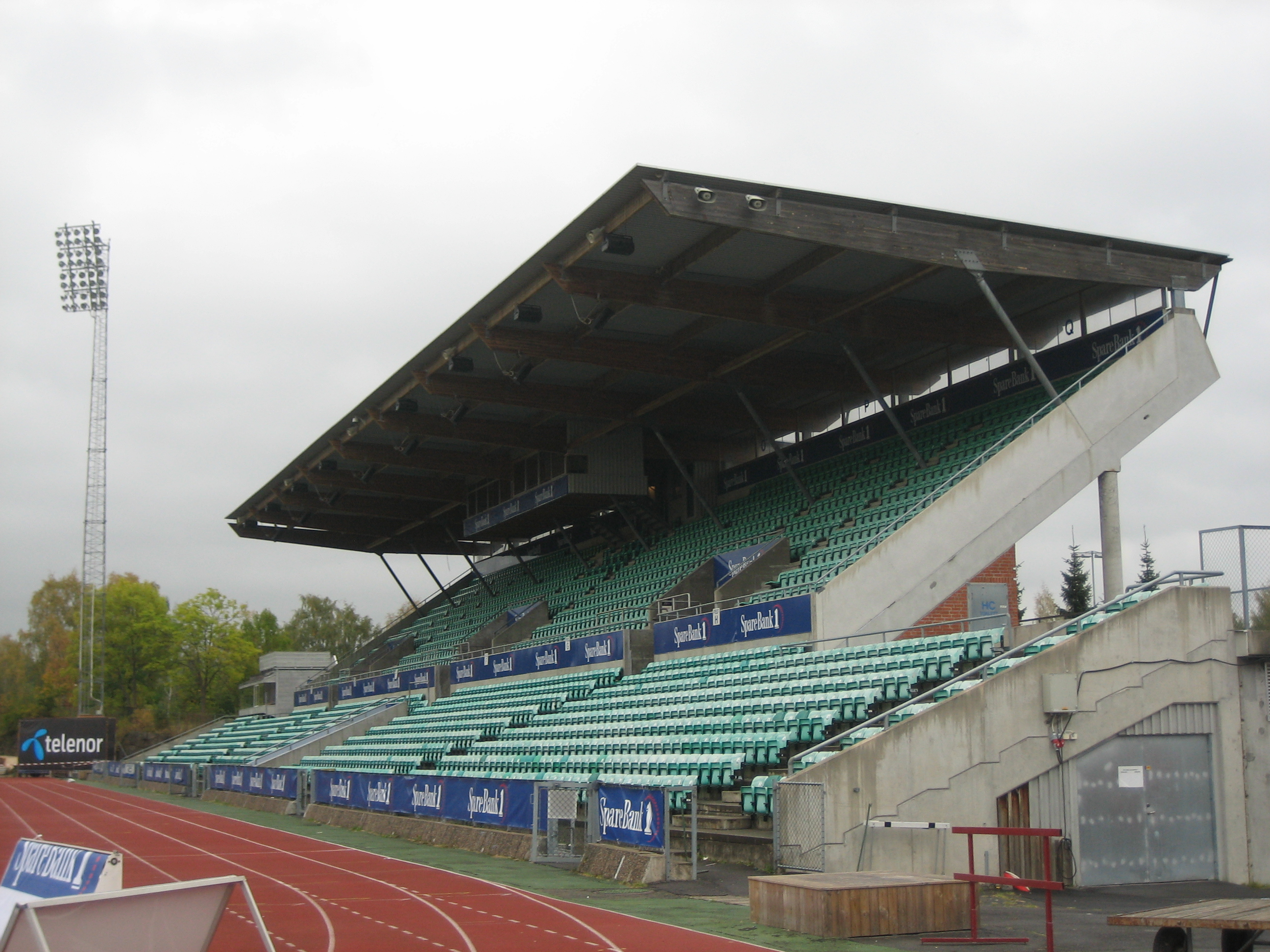 Main stand of Nadderud stadion